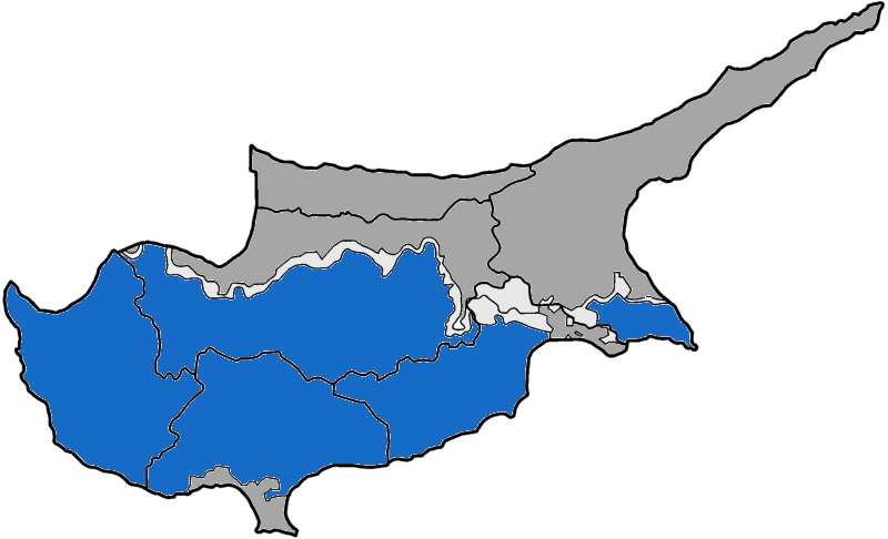 Cyprus presidential election 2018 mao